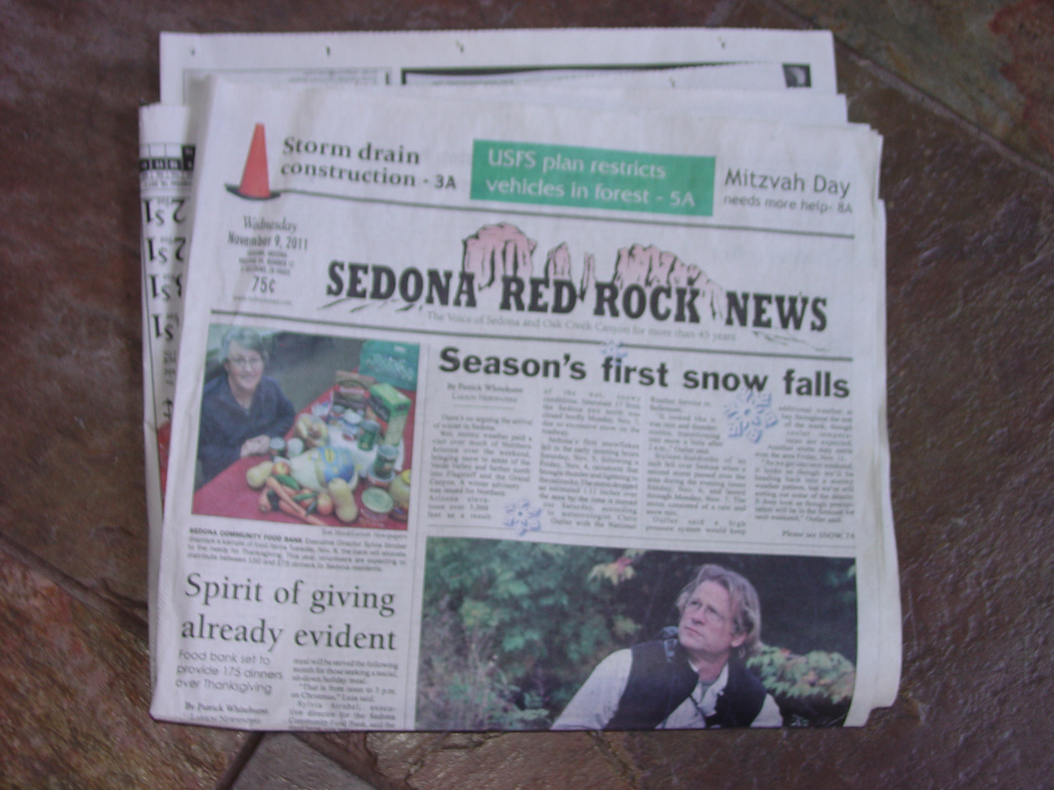 Sedona Red Rock News, small town newspaper, newsprint color